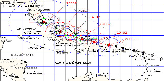 The forecast track of Hurricane Debby (2000). Forecast by National Hurricane Center and Graphic by Naval Atlantic Meteorology and Oceanography Center.